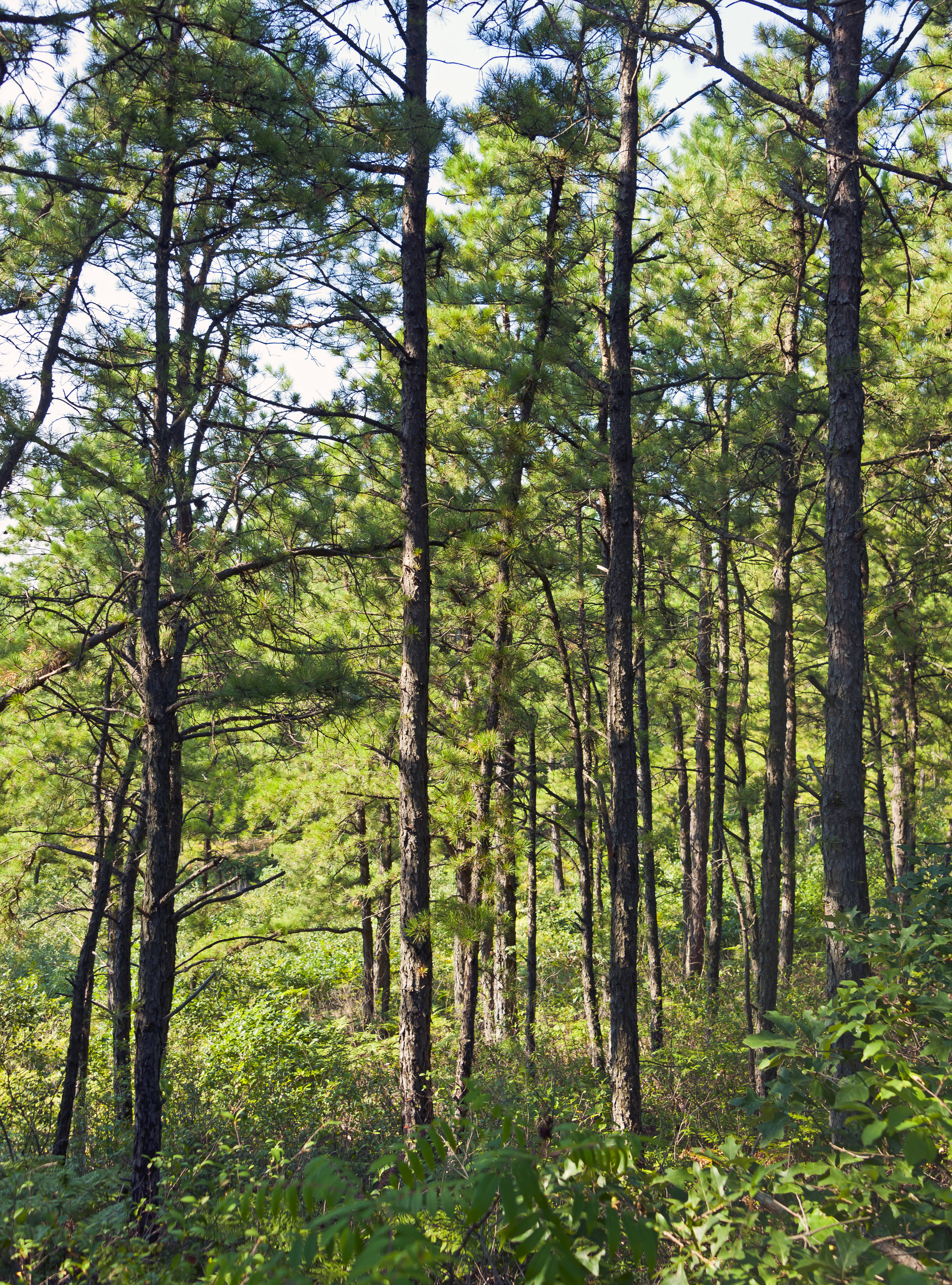 A patch of dense pines in the Albany Pine Bush